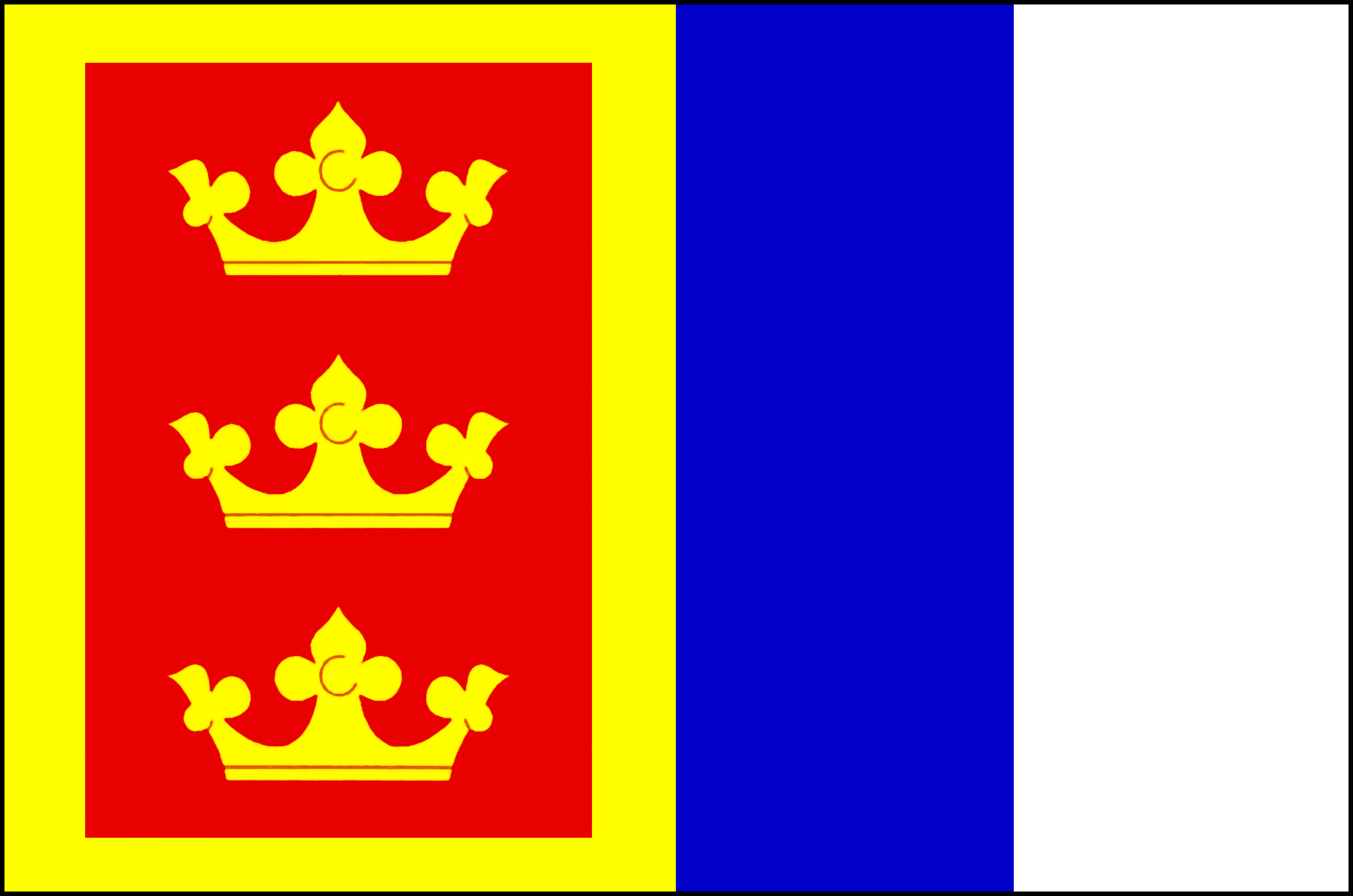 Třebešice, region Benešov (CZ) flag